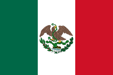 The flag of Mexico from 1823-1864. The "Second National Flag." The designer of the drawing, Juan Manuel Gabino Villascan, has granted permission for the photo to be used and sent to the Public Domain.